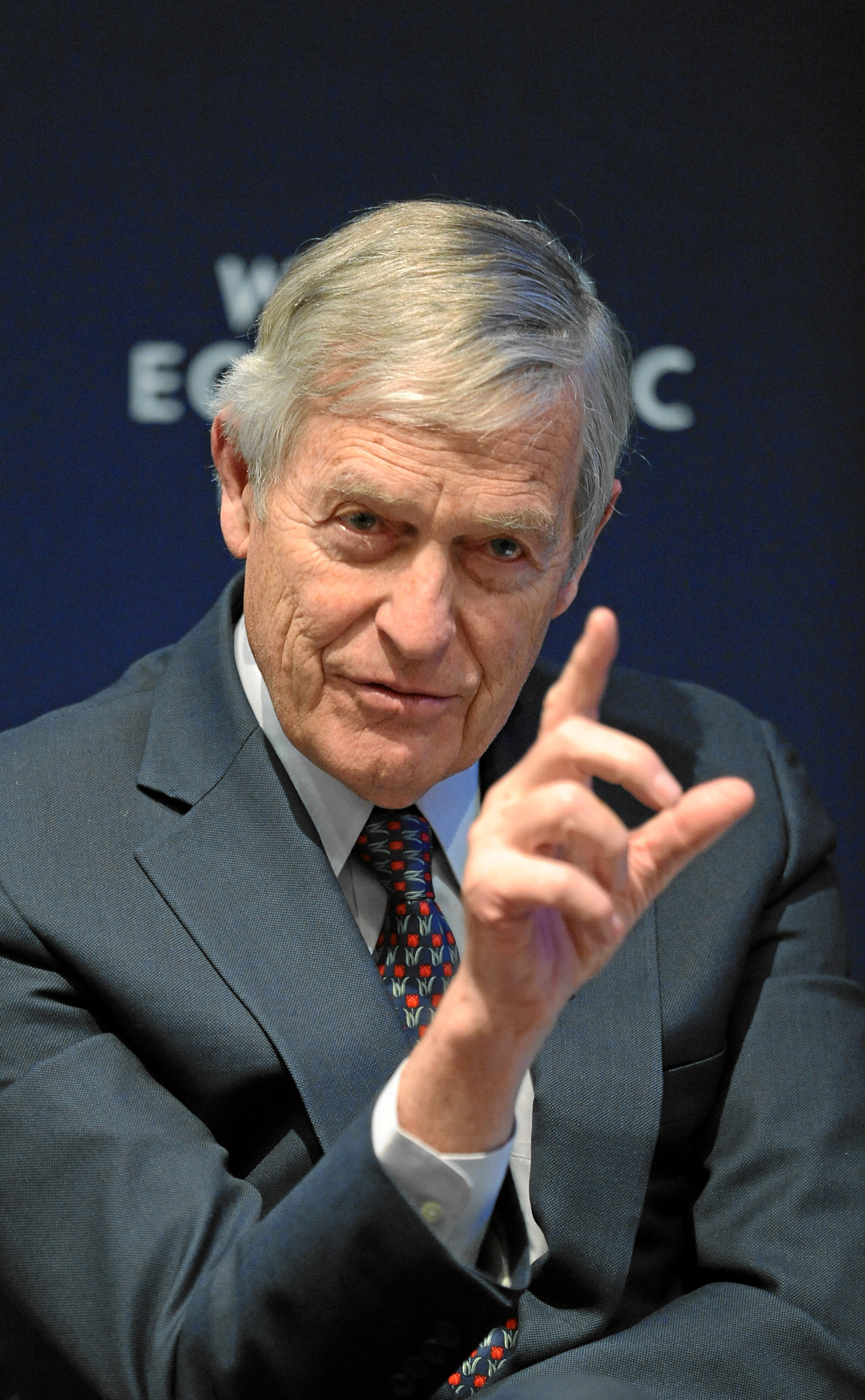 DAVOS/SWITZERLAND, 27JAN11 - Moderator Timothy E. Wirth, President, United Nations Foundation, Washington DC; Global Agenda Council on Climate Change, speaks during the session 'The New Reality of Climate Change' at the Annual Meeting 2011 of the World Economic Forum in Davos, Switzerland, January 27, 2011. Copyright by World Economic Forum by Michael Wuertenberg